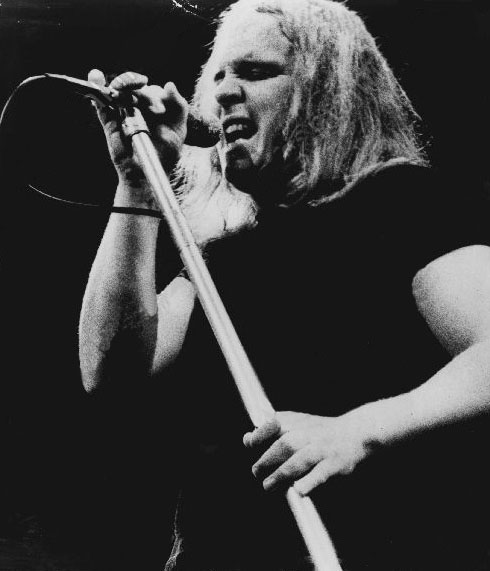 Photo of Ronnie Van Zant, late vocalist of rock group Lynyrd Skynyrd.